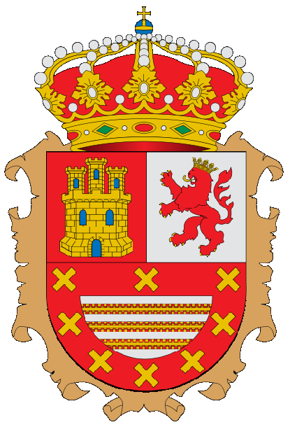 Fuerteventura, Spain Coat of arms (Oficial version)